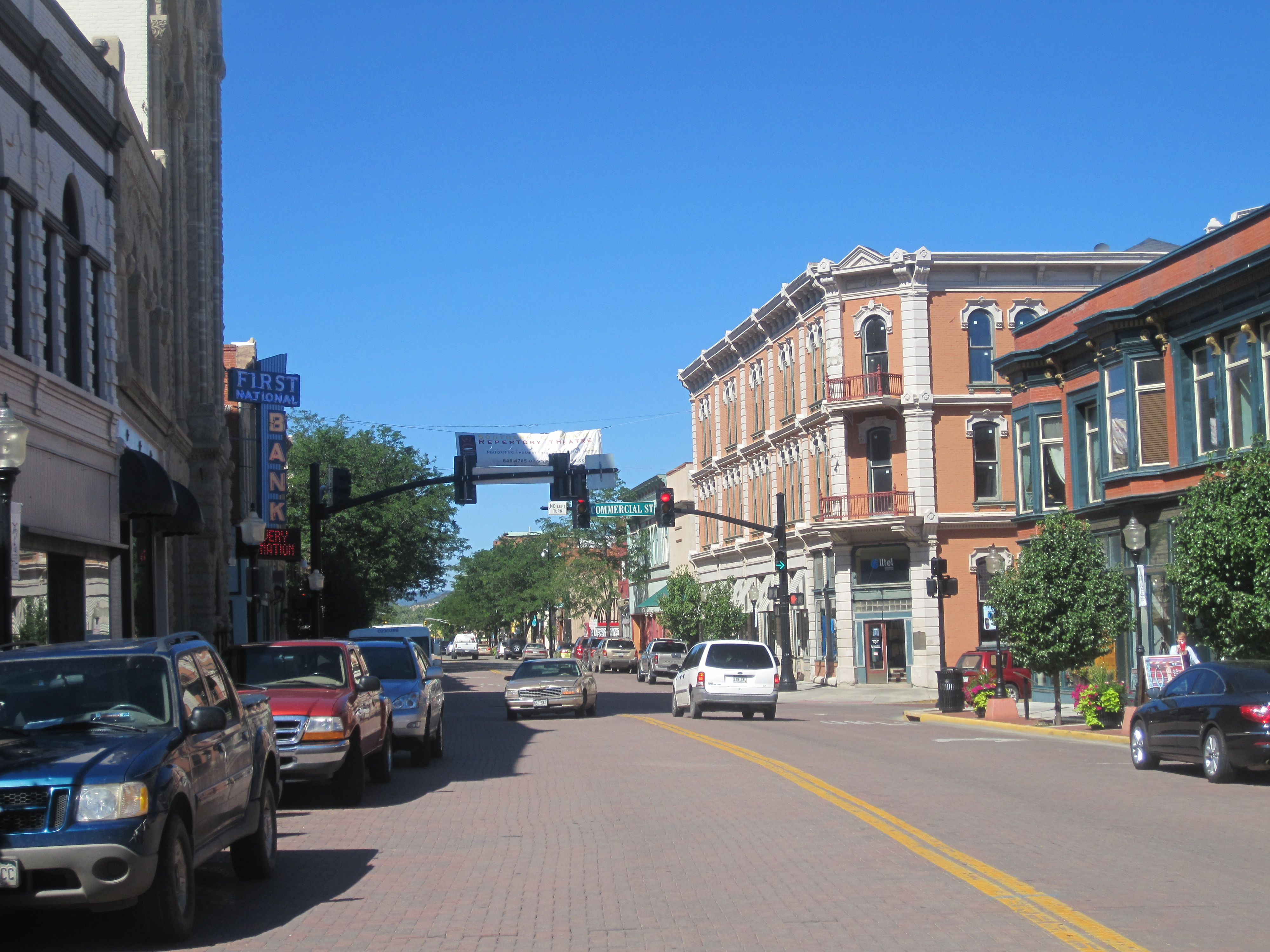 I took photo with Canon camera in Trinidad, CO.